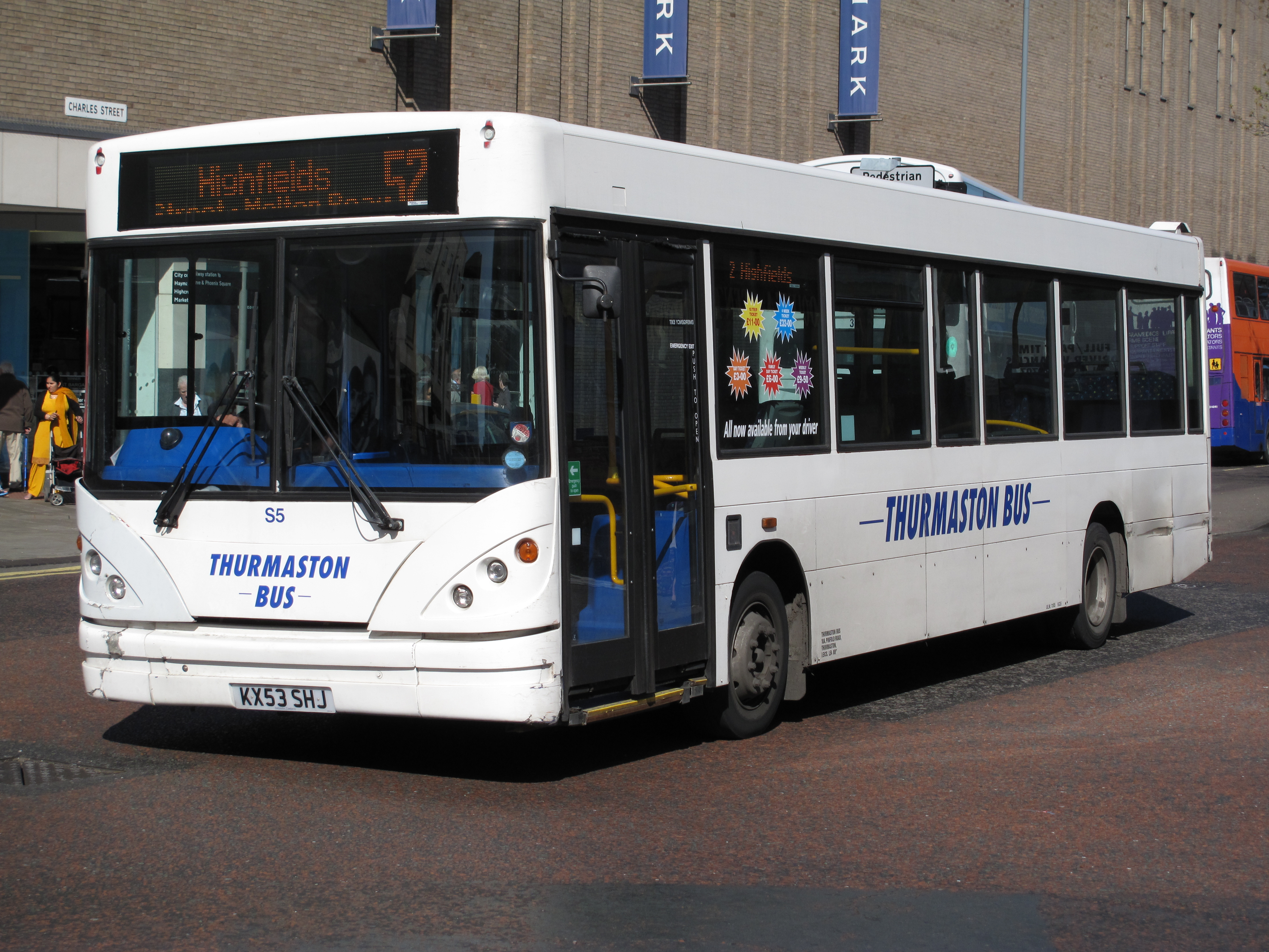 A Dennis Dart / Caetano Nimbus operated by Thurmaston Bus in Leicester.